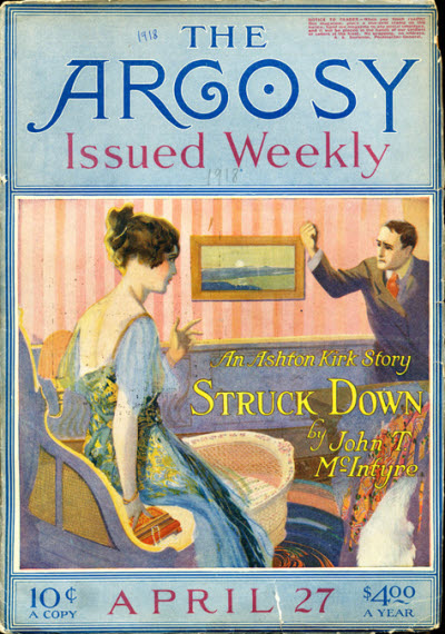 The Argosy, April 27, 1918